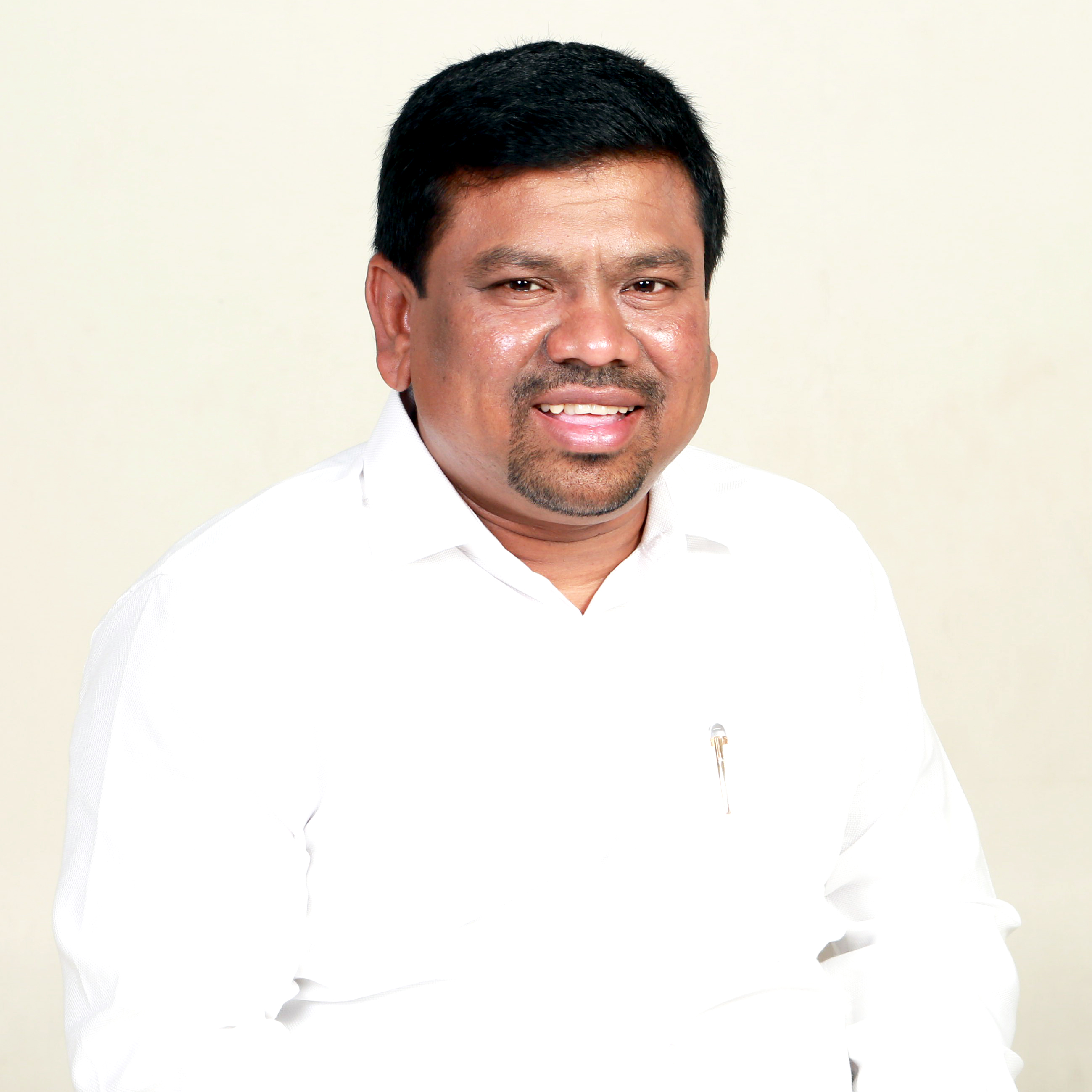 Elected member of the Parliament representing Ramanathapuram Constituency